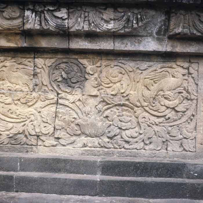 Low relief at the Candi Mendut